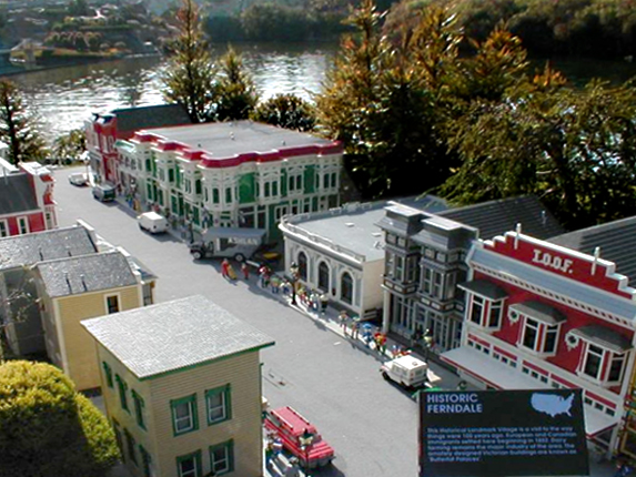 A street scene at Legoland, California showing some of the historic buildings of Ferndale, California replicated in over one million pieces of interlocking plastic toys. Ferndale is the only American small town featured among Miniland exhibits of famous large cities of the United States.